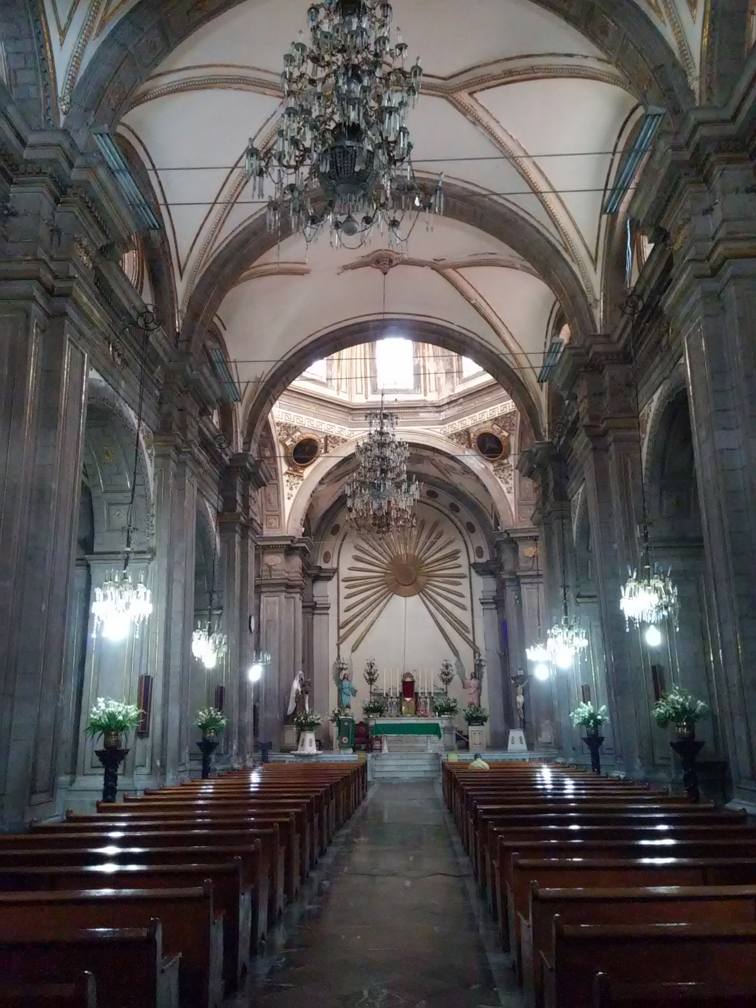 Interior del templo del Carmen en el centro histórico de la Ciudad de México